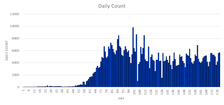 The increase in Covid-19 deaths reported to WHO compared to the previous day as of 17-Jul-20